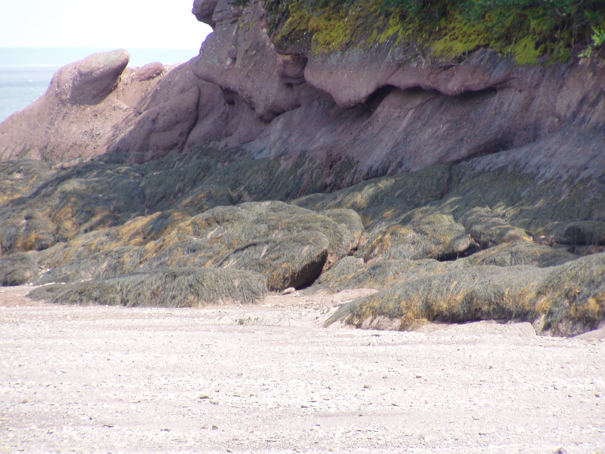 Kelp on rocks at Herring Cove. Fundy National Park of Canada, New Brunswick. Photo taken in July 2004 by myself, Danielle Langlois.